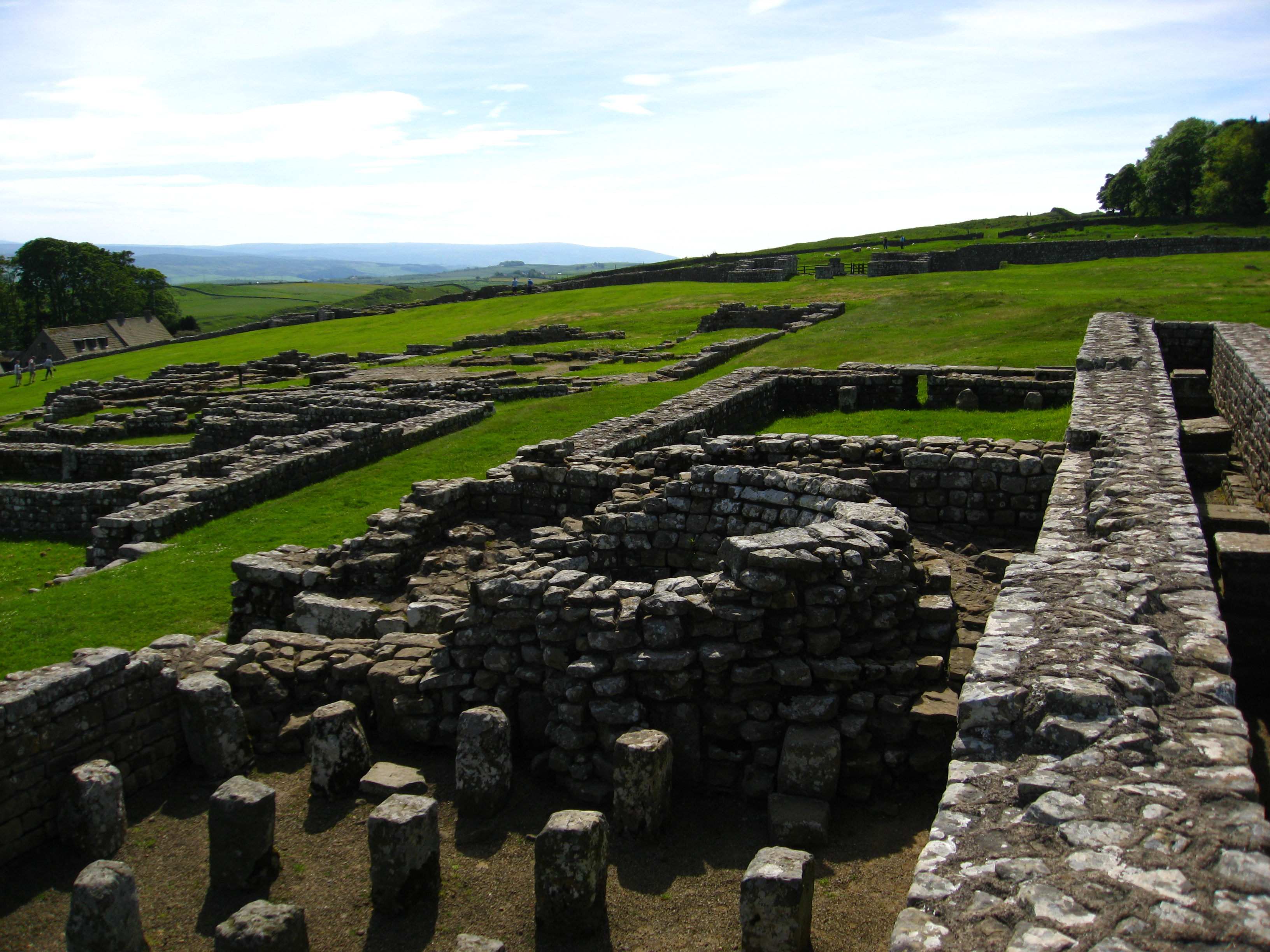 Granary at Housesteads Roman Fort.